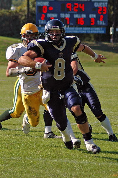 Photo of football player, Doug Goldsby. Wilson Wong photo.